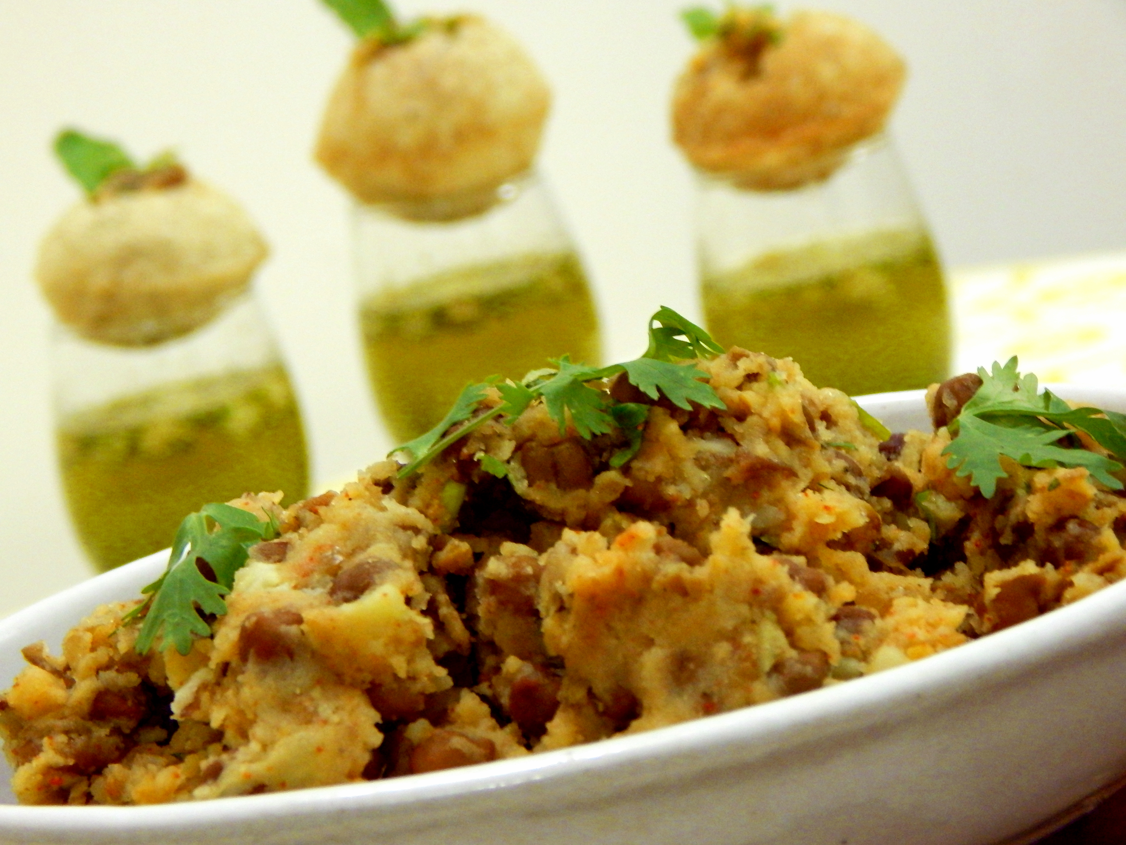 Potato Stuffing - for pani puri